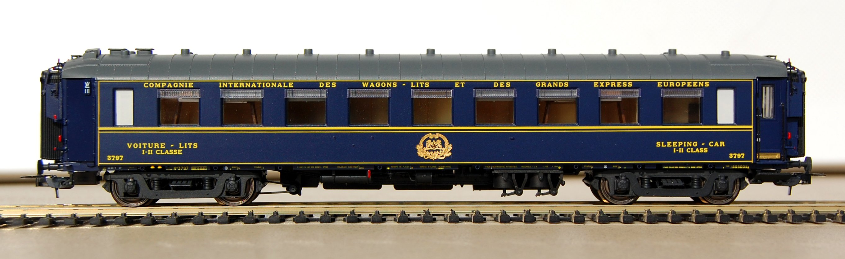 Sleeping car CIWL F (as ferry) of 1937 ; 1st/2nd classes ; scale model by LS Models